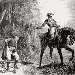 A highwayman, from an old print This is a public domain image. I do not know exactly where it came from, but it seems to have gotten into a collection of public domain art. As such, variants on this image are all over the web. ([1], [2], [3], [4]). At least some of these copies are from different scans of the same source image. This image downloaded, probably from the link, shrunk and recontrasted. - Smerdis of Tlön 15:57, 22 December 2006 (UTC)